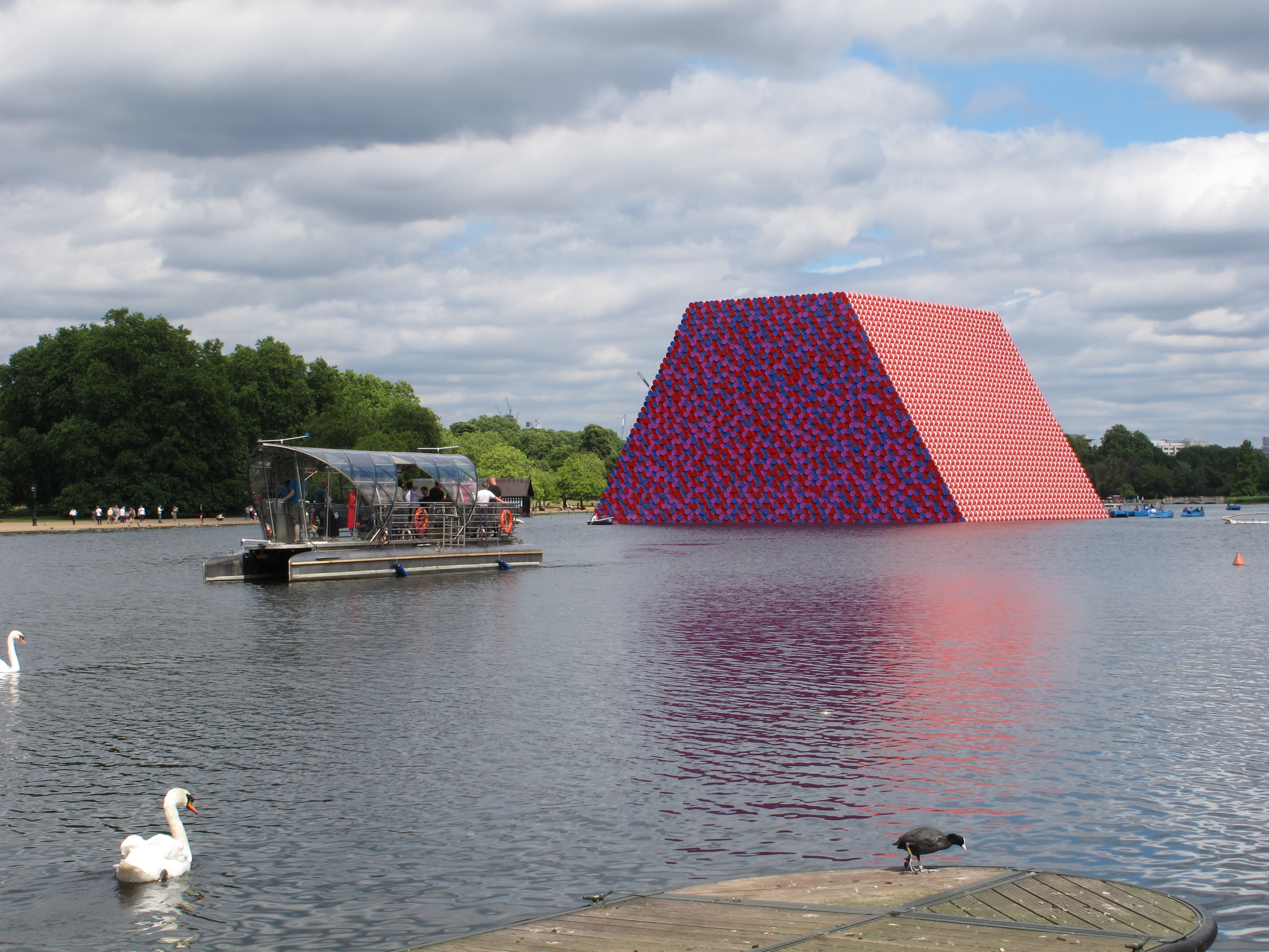 The Serpentine with "The Mastaba" massive temporary sculpture. "The Mastaba" by Christo and Jeanne-Claude is a 600-ton array of red, magenta and blue oil drums. The shape is a rectangular pile with sloping sides, vertical ends and a flat top; it is derived from Egyptian tombs of that shape, the name comes from the Arabic for bench. Like other large installations by Christo and Jeanne-Claude it is temporary. Also in the photo is the Solar Shuttle solar-powered electric boat, and wildfowl. Just beyond the Mastaba are some pedalos. For a closer view see this image.